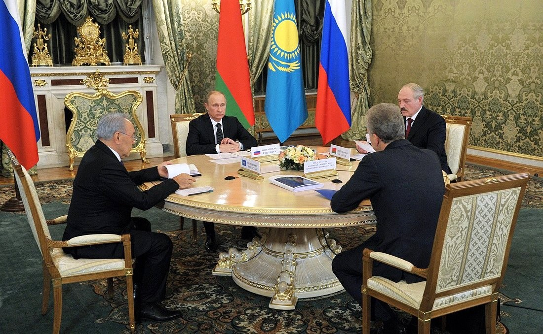 Session of Supreme Eurasian Economic CouncilЗаседание Высшего Евразийского экономического совета Владимир Путин, Президент Белоруссии Александр Лукашенко и Президент Казахстана Нурсултан Назарбаев приняли участие в заседании Высшего Евразийского экономического совета. 19 декабря 2012 года 20:00 Москва, Кремль